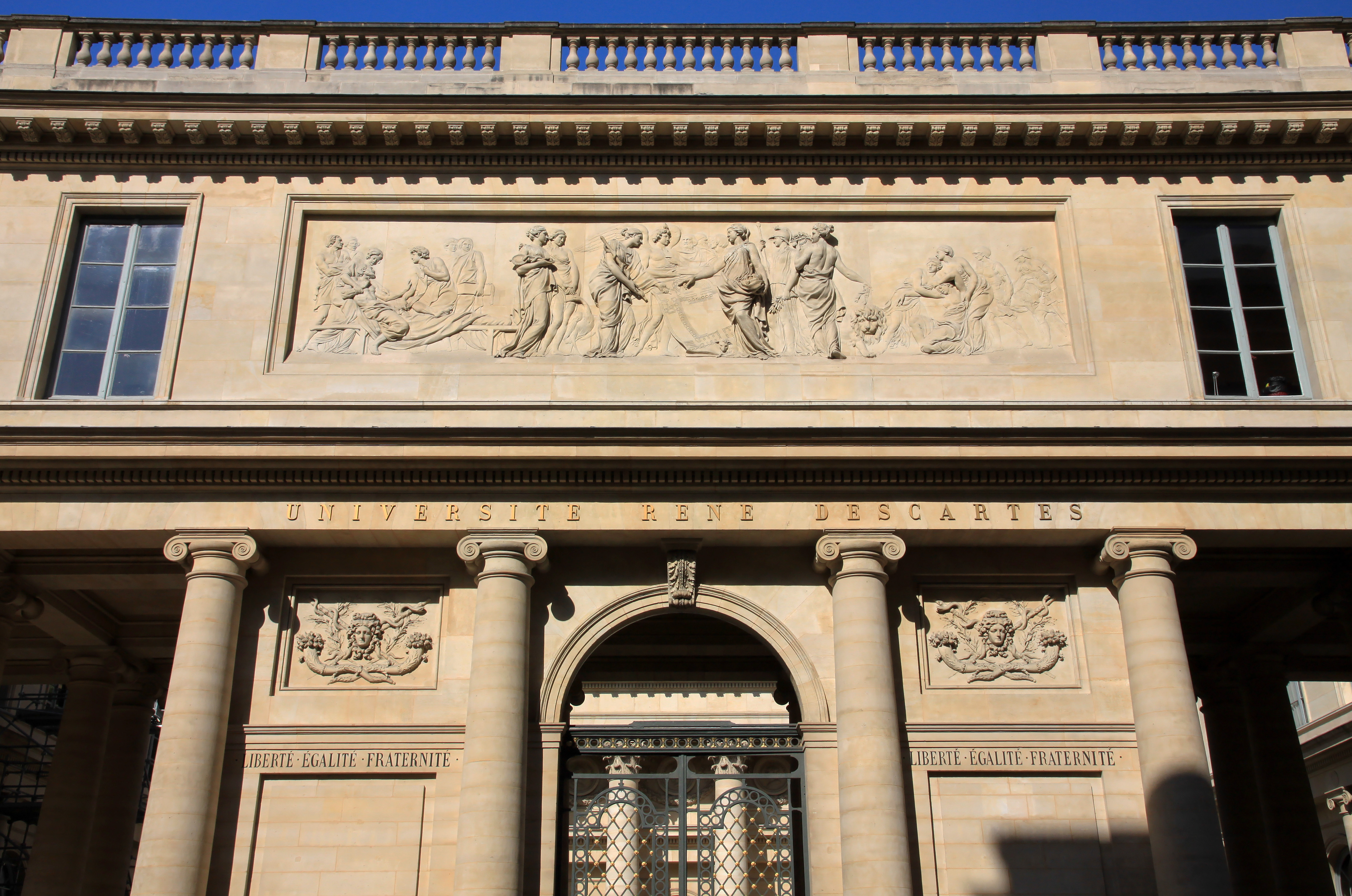 Entrance of the Paris Descartes University (medical sciences departement), rue de l'École-de-Médecine, Paris.